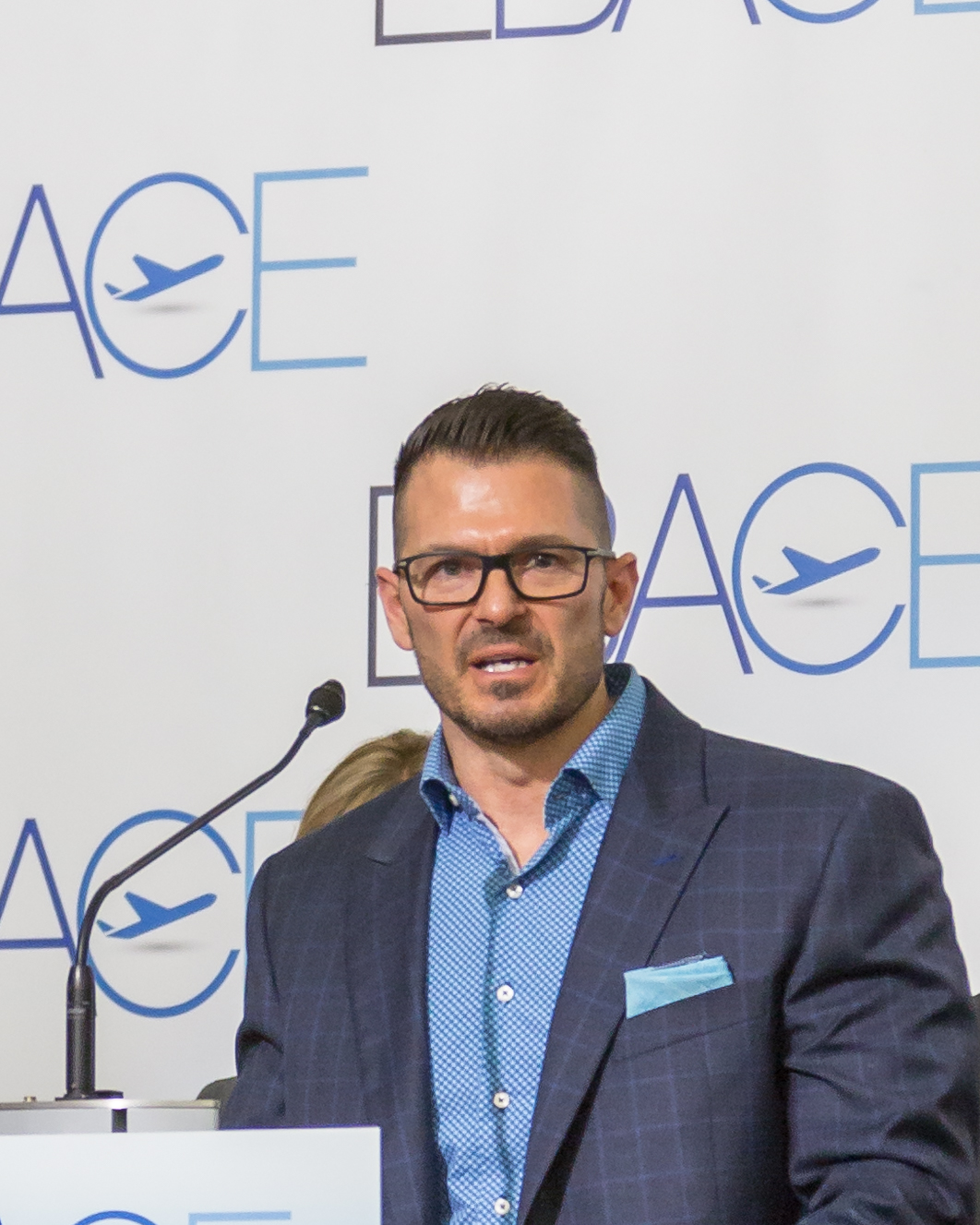 David Coleal speaking at Media luncheon, EBACE 2018